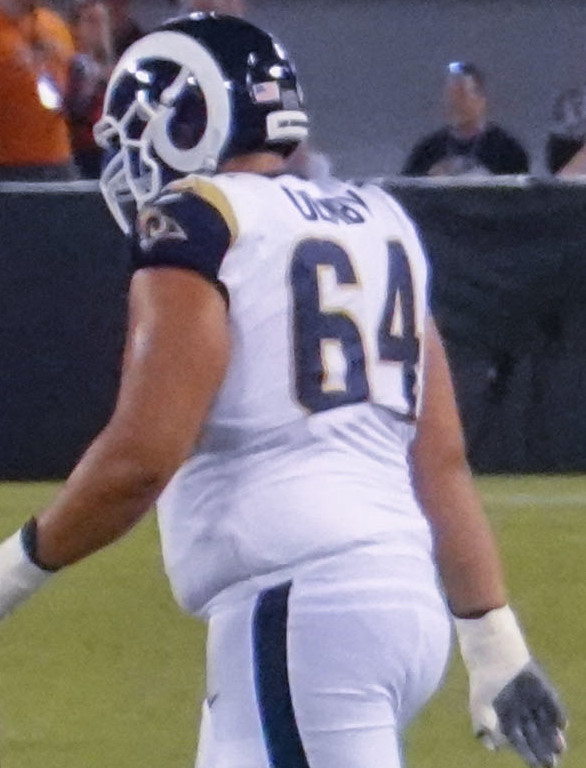 2018 Los Angeles Rams season